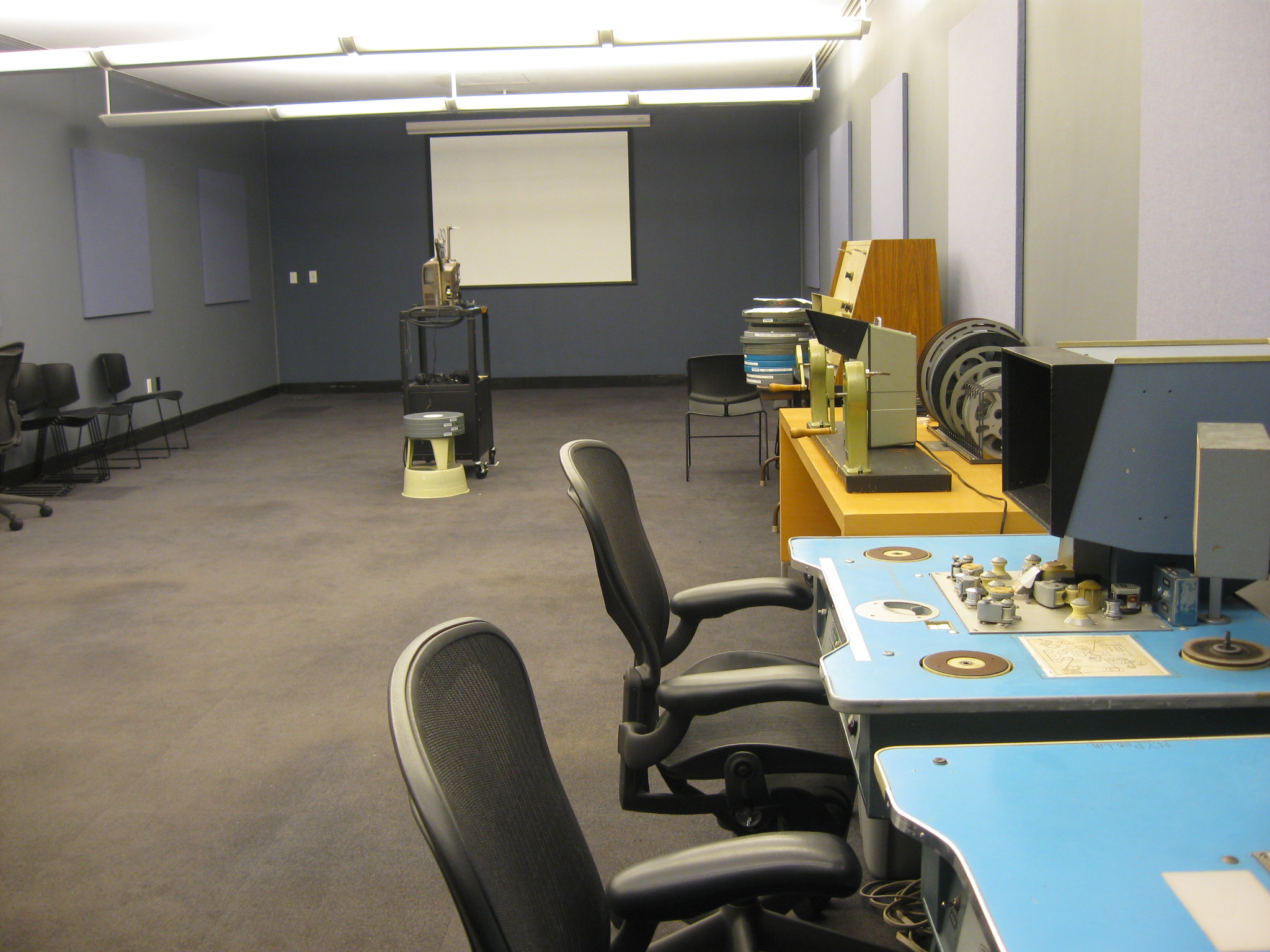 Reserve Film and Video screening room in the New York Public Library for the Performing Arts.